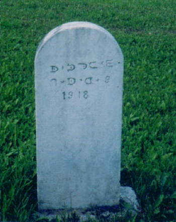 The grave of Belzeni (Virginie) in the Nak'azdli graveyard in Fort Saint James, British Columbia, Canada.